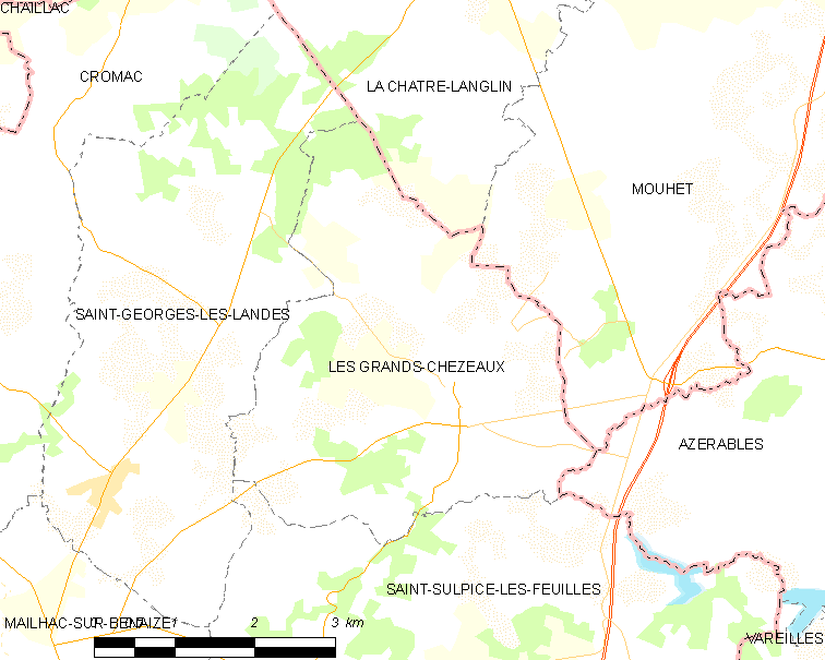 Map of French municipality Les Grands-Chézeaux